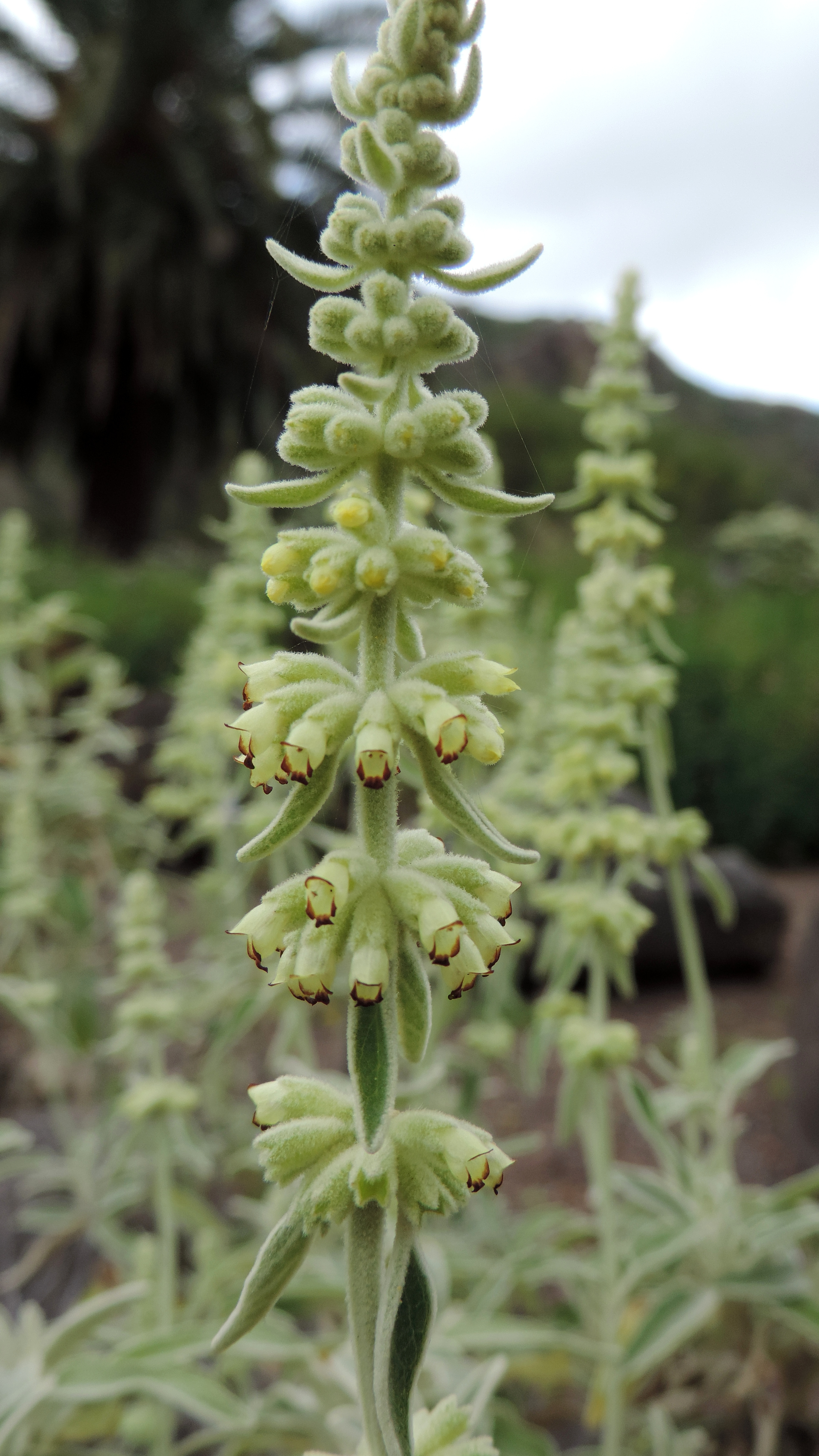 Sideritis ferrensis in Jardín Botánico Canario Viera y Clavijo, Gran Canaria